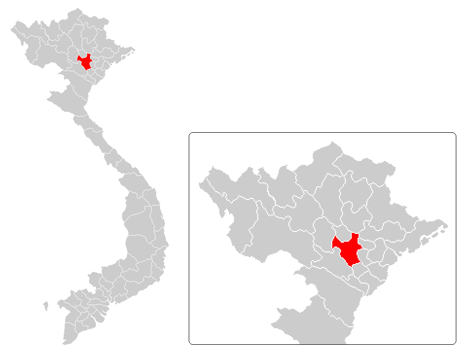 Map of Vietnam